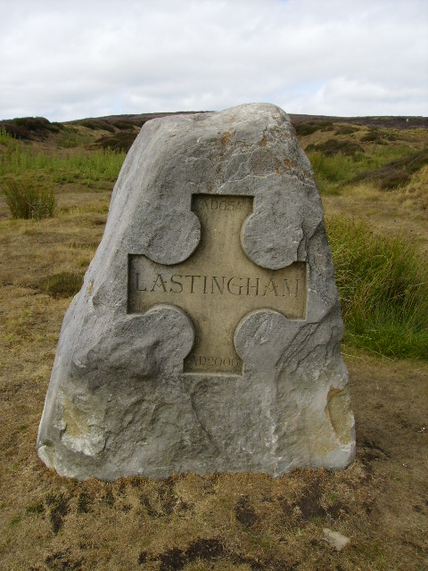 Commemorative stone erected for the millennium at Lastingham, North Yorkshire